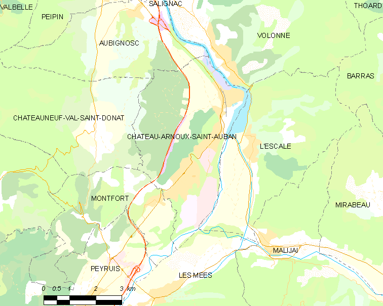 Map commune FR insee code 04049.png Légende